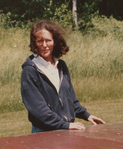 Stephanie Bernheim, Making the Skin of the Relief Sculpture, 1980, detail of process, Ancramdale, New York